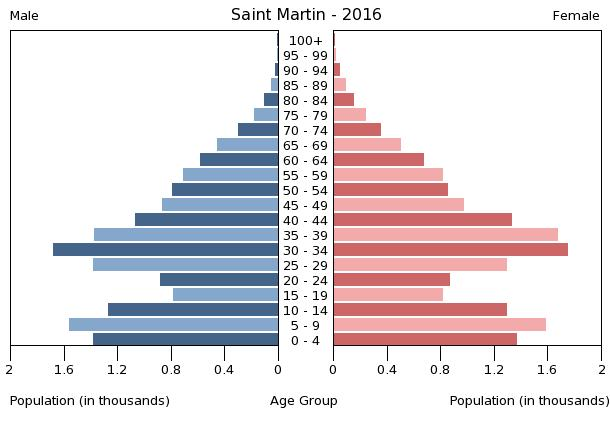 The population pyramid of Saint Martin illustrates the age and sex structure of population and may provide insights about political and social stability, as well as economic development. The population is distributed along the horizontal axis, with males shown on the left and females on the right. The male and female populations are broken down into 5-year age groups represented as horizontal bars along the vertical axis, with the youngest age groups at the bottom and the oldest at the top. The shape of the population pyramid gradually evolves over time based on fertility, mortality, and international migration trends.